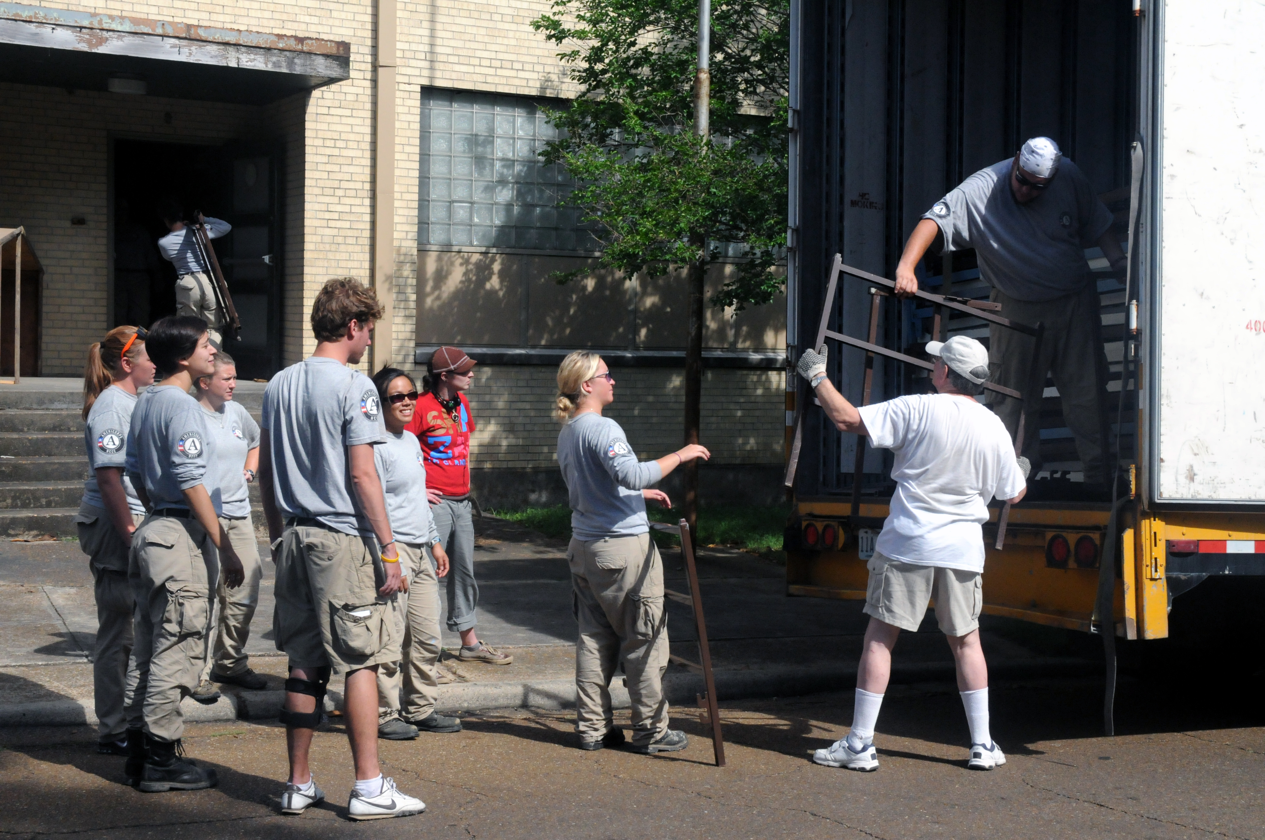 Yazoo City, MS, May 14, 2010 -- At a local church, with efforts coordinated through the Catholic Charities organization, AmeriCorps members of River 4 and 5 Teams unload a truckload of beds donated by Hinds Community College to be distributed to survivors of the April 24 tornado. The work of AmeriCorps greatly supplements FEMA disaster recovery efforts. George Armstrong/FEMA